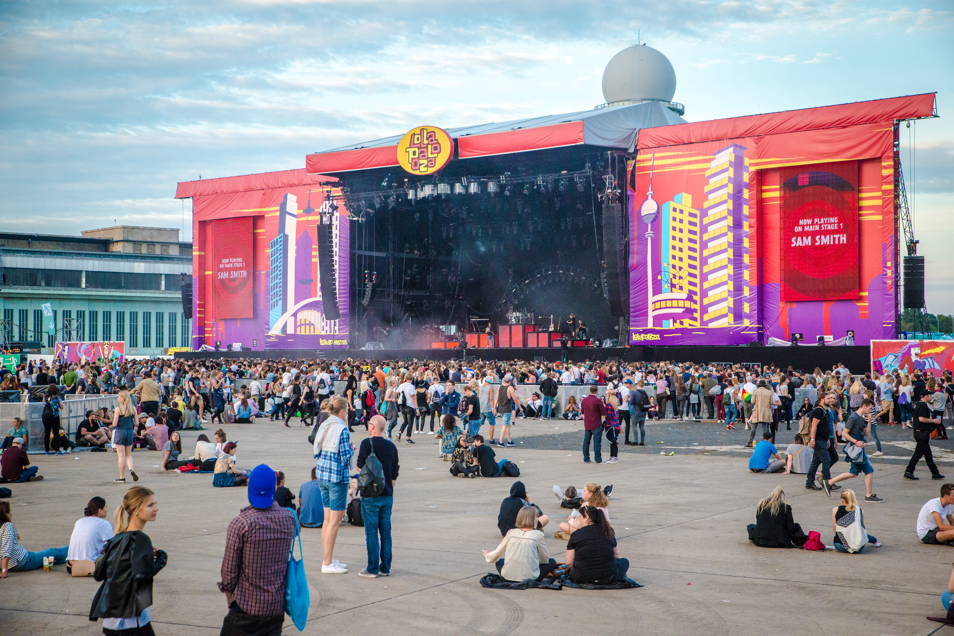 Lollapalooza Festival Berlin Impressionen 2015